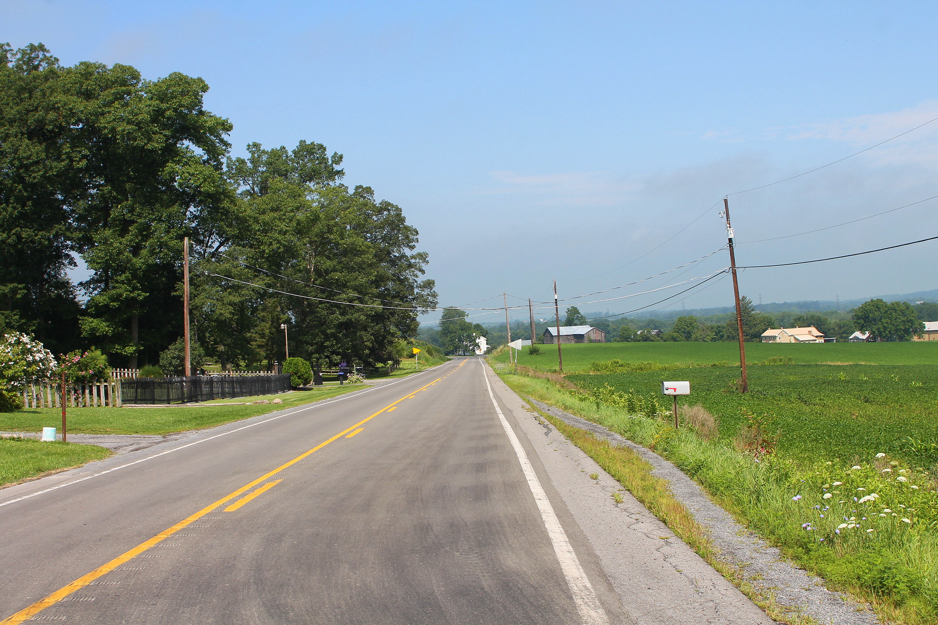 Pennsylvania Route 45 in Liberty Township, Montour County, Pennsylvania